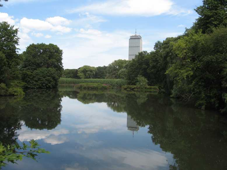 Looking north from the Forsyth Way footbridge in August 2007